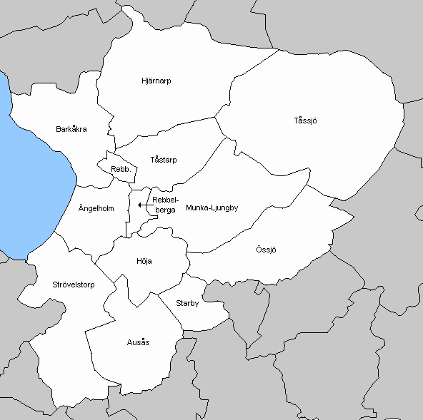 socken in Ängelholm